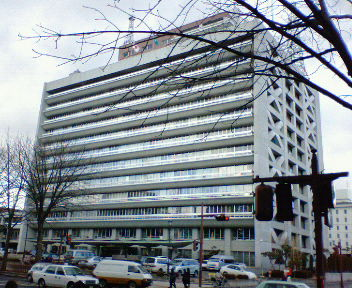 Iwate Prefectural Office Main Building